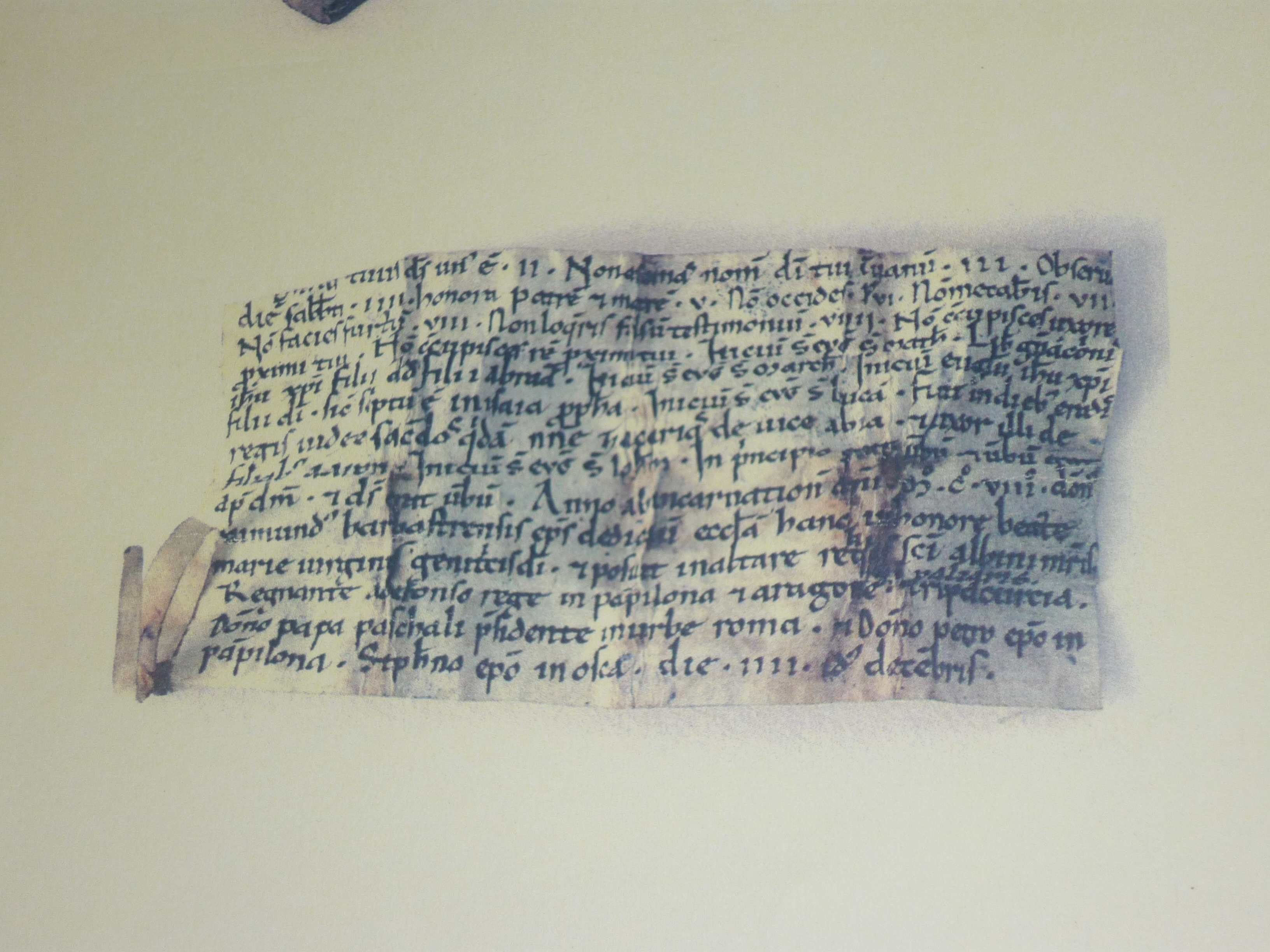 manuscrit arqueta